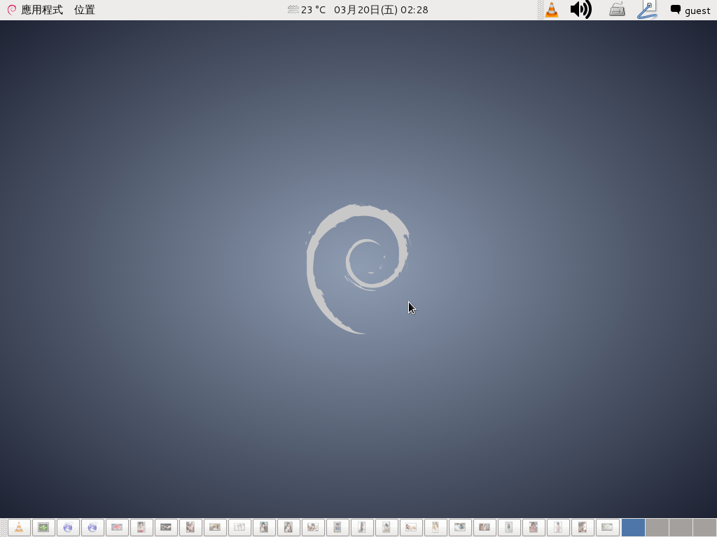 screenshot of Debian 7.3 (wheezy) amd64 with GNOME 3.4.2 with theme Clearlooks